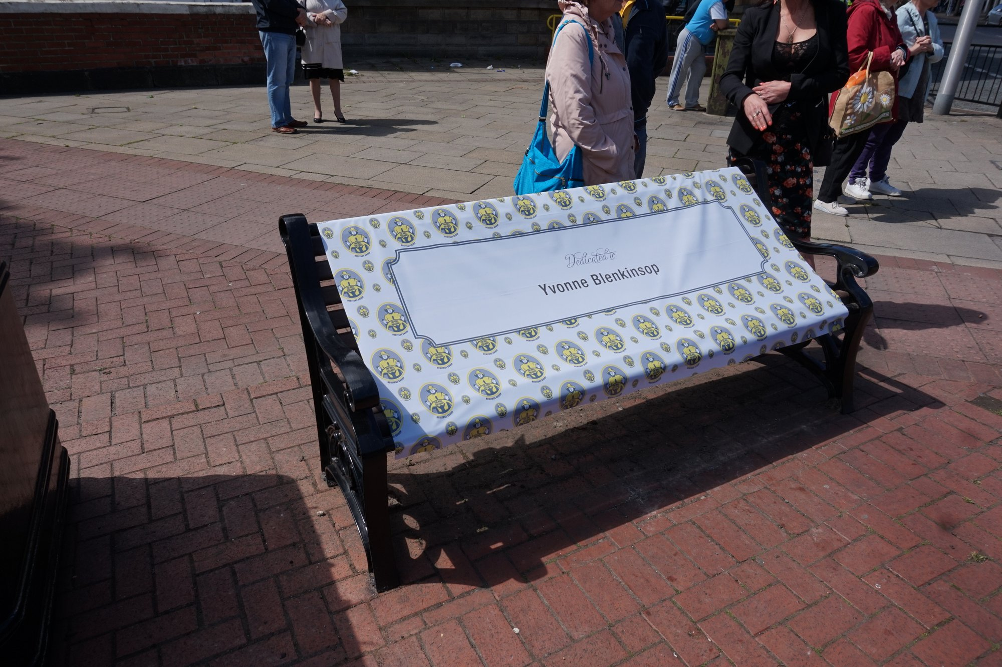 Bench dedicated to Yvonne Blenkinsop